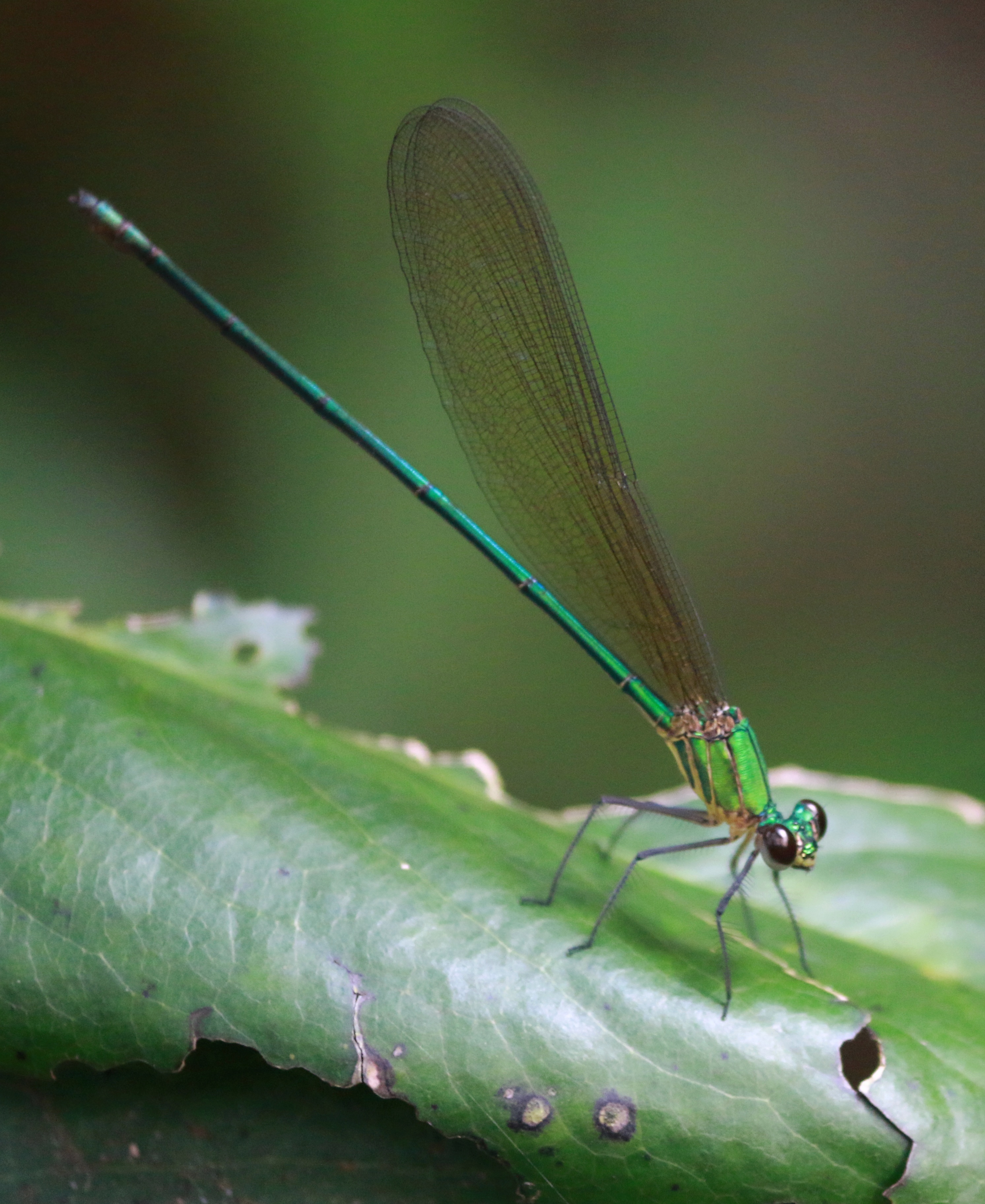 Vestalis gracilis,,Clear-winged Forest Glory